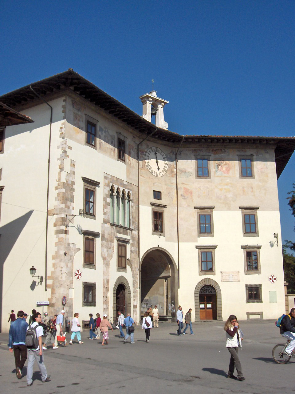 Palazzo dell' Orologio; Pisa, Italy Own photo - photo taken by Georges Jansoone on 10 October 2005